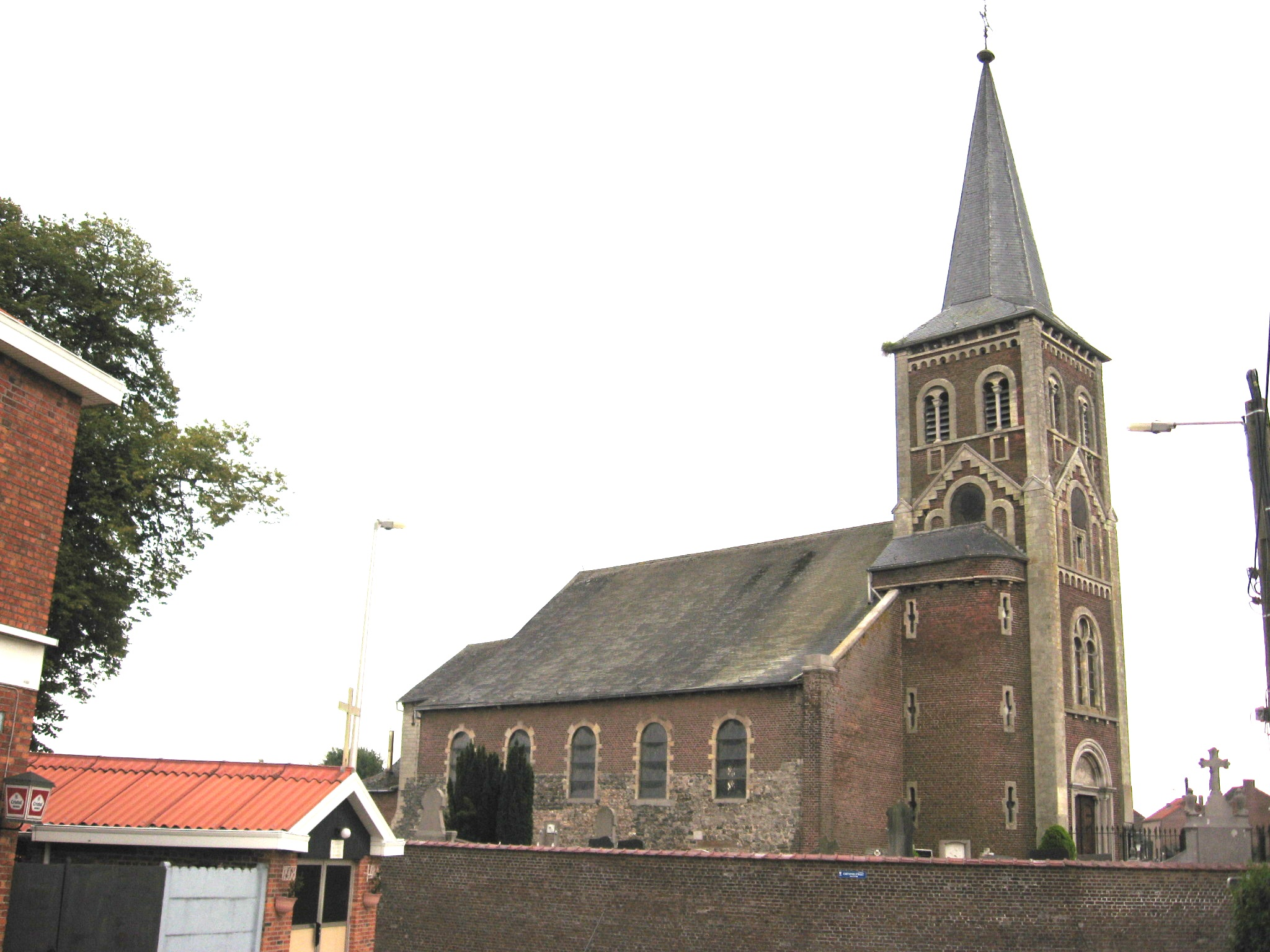 Church of Saint Lambert in Horpmaal, Heers, Limburg, Belgium